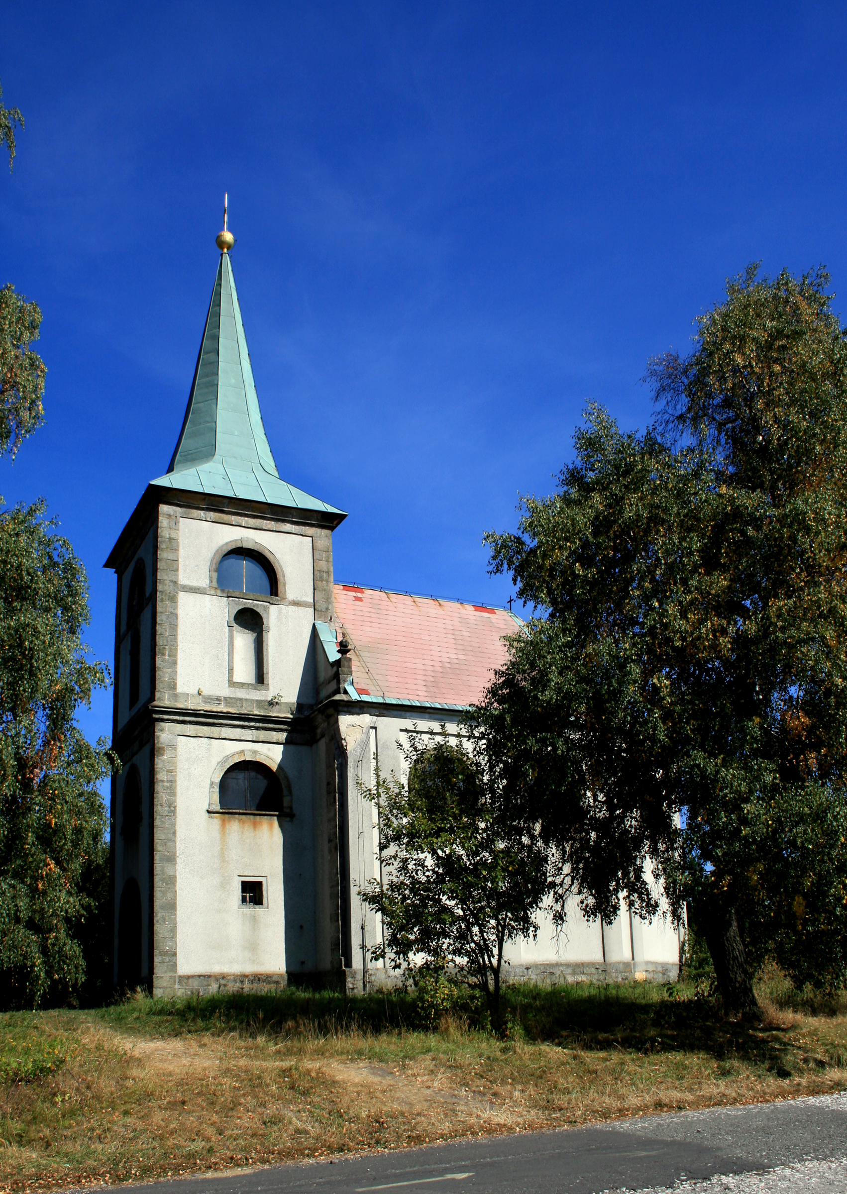 Small Church of John of Nepomuk on the hill Zvičina in east Bohemia, Czech Republic